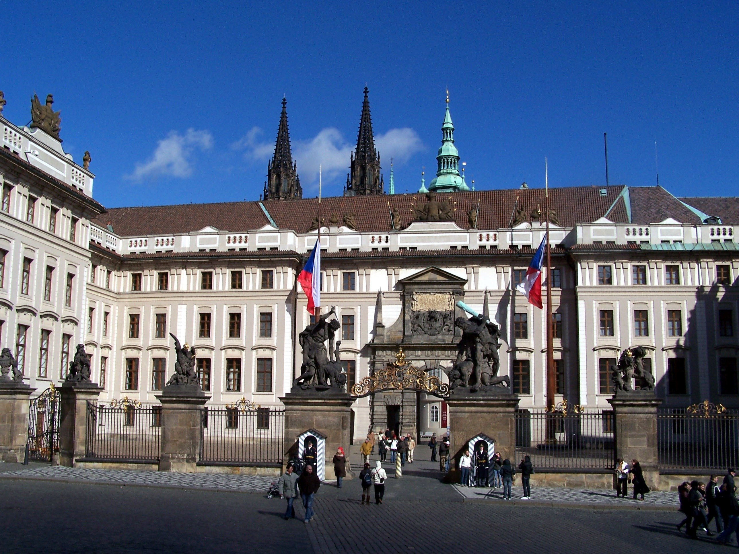 Front of Prague Castle.